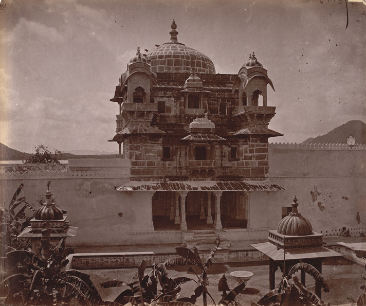 The Gul Mahal on Jag Mandir, Pichola Lake, Udaipur